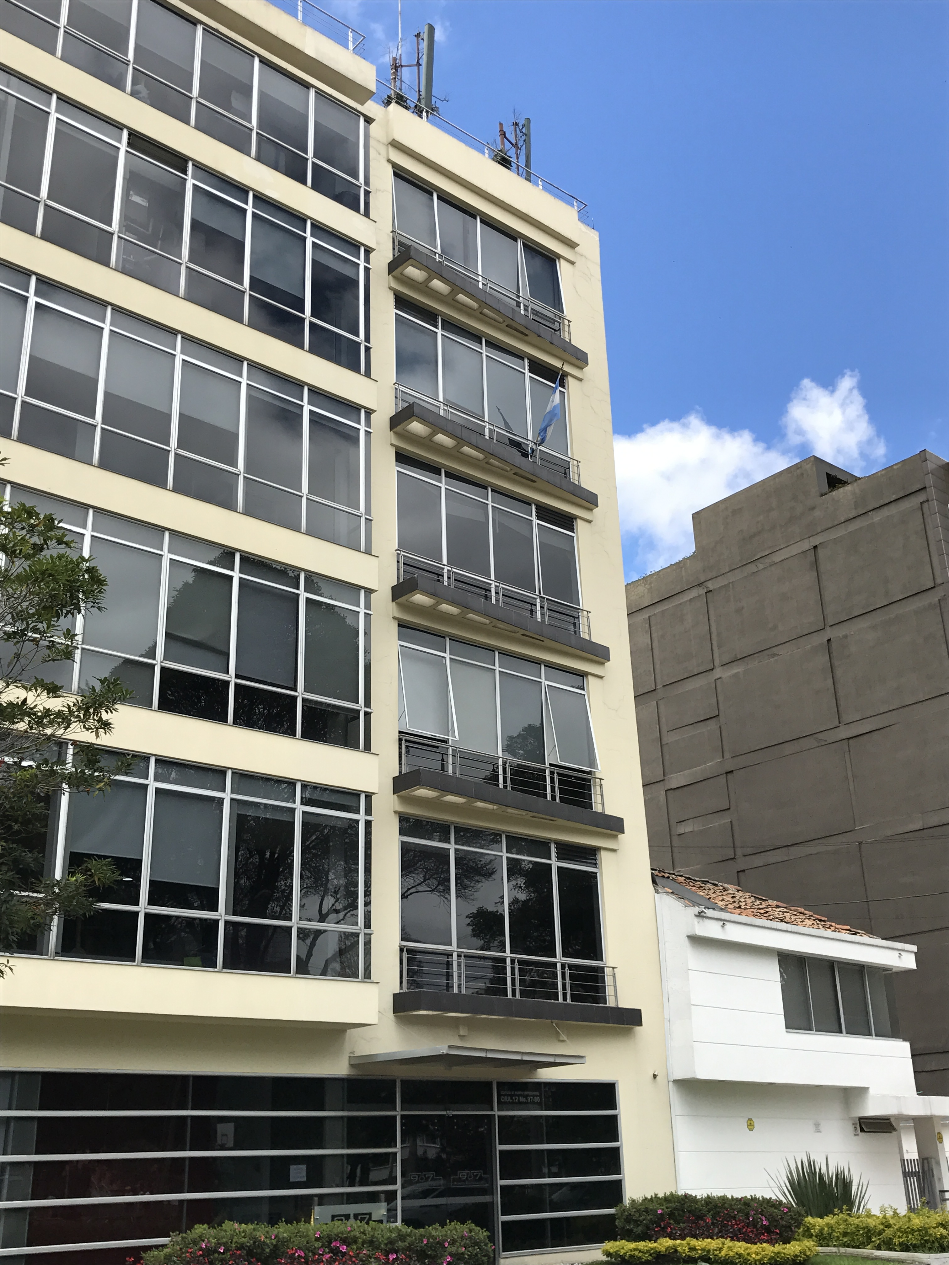 Embassy of Argentina in Bogota, Colombia